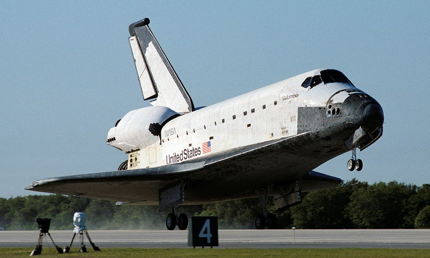 The title says it all. She completed her 16th flight by landing at the Kennedy Space Center. The ill-fated orbiter completed 12 more flights, which culminated in her destruction on February 1st, 2003, during the landing phase of STS-107, killing her crew of seven.